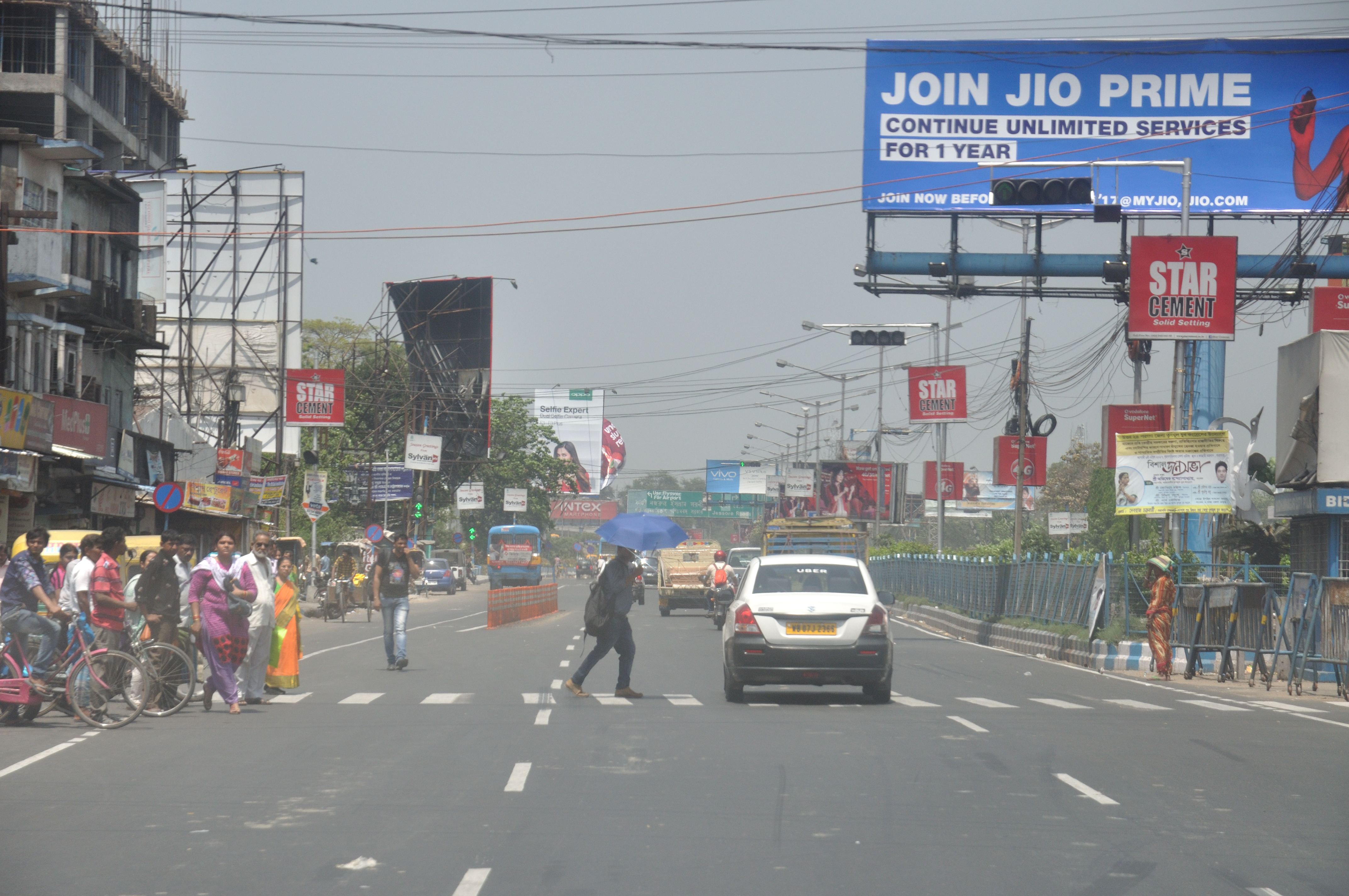 This photograph was taken in Kolkata, West Bengal.